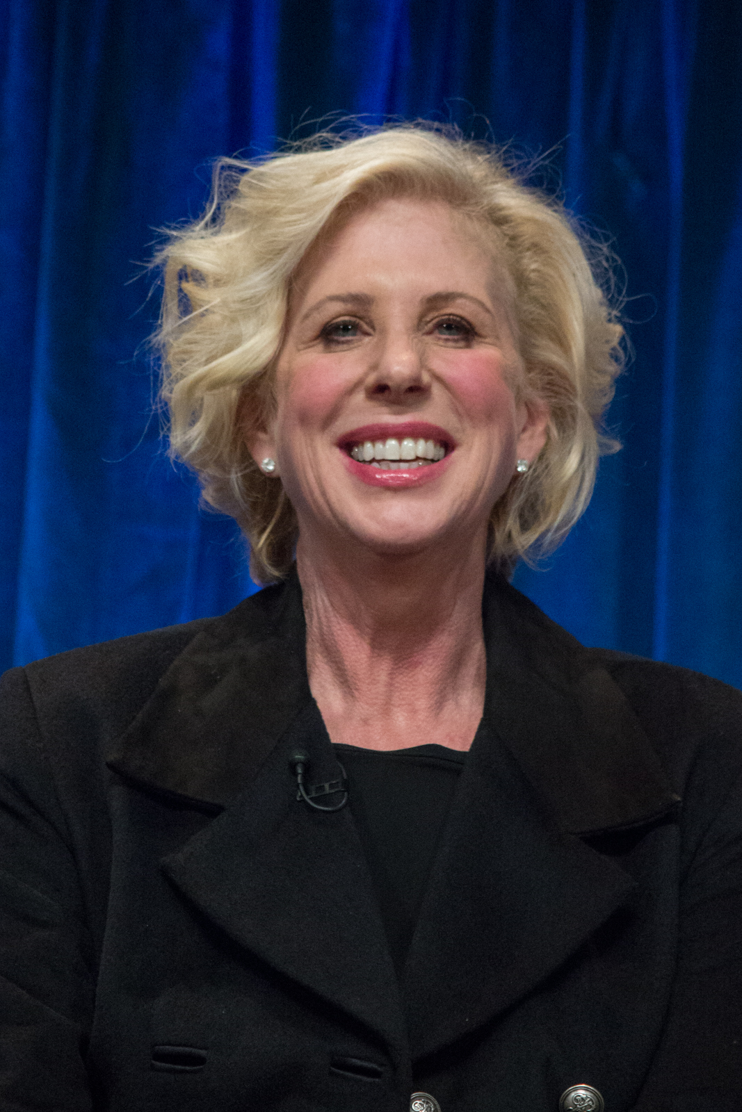 Callie Khouri at the PaleyFest 2013 panel on the TV show "Nashville"